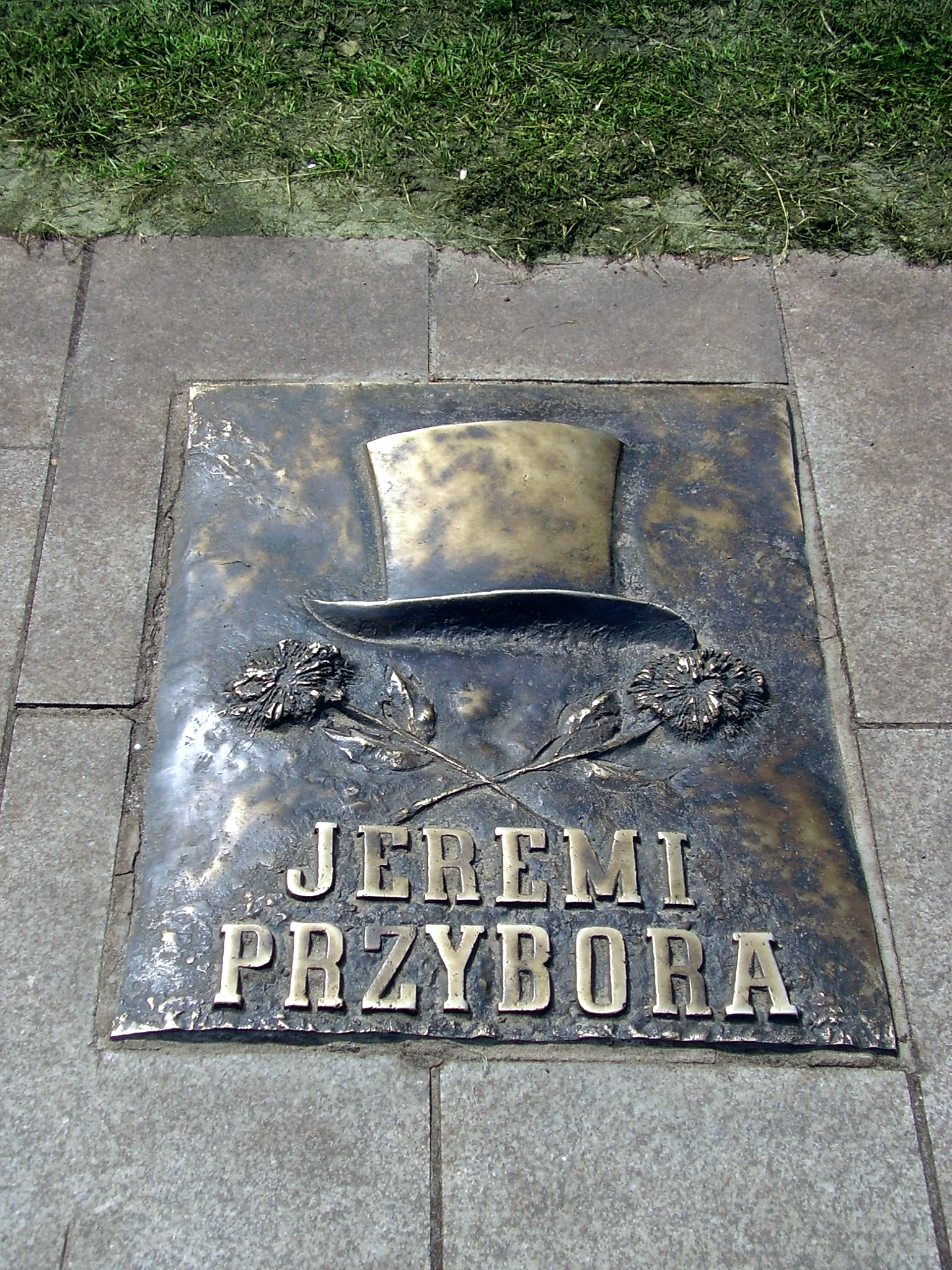 Promenada Gwiazd in Międzyzdroje (Poland)